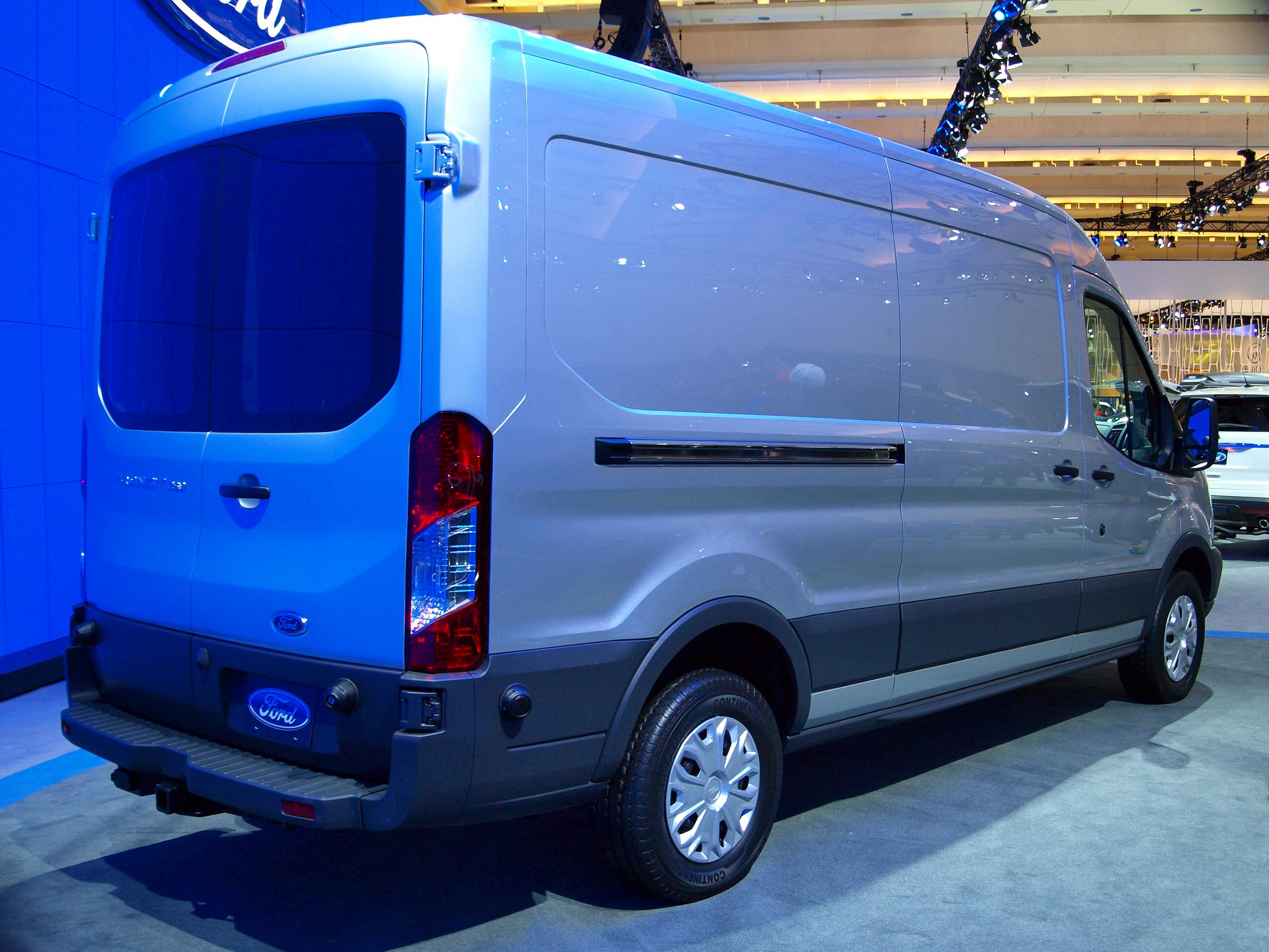 A rear 3/4 view of the 2014 Ford Transit full-size van. This van was shown at the 2013 Canadian International Auto Show in Toronto, Ontario, Canada.